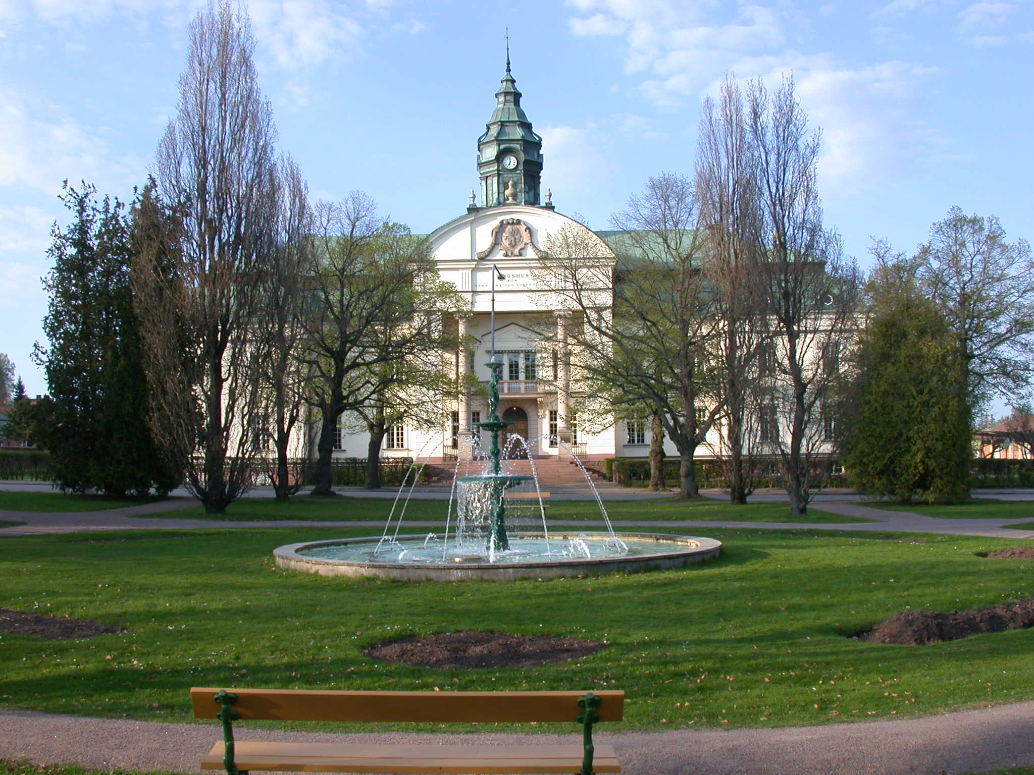 The old court house in Motala, Sweden. Photo by Riggwelter, May 10, 2006.